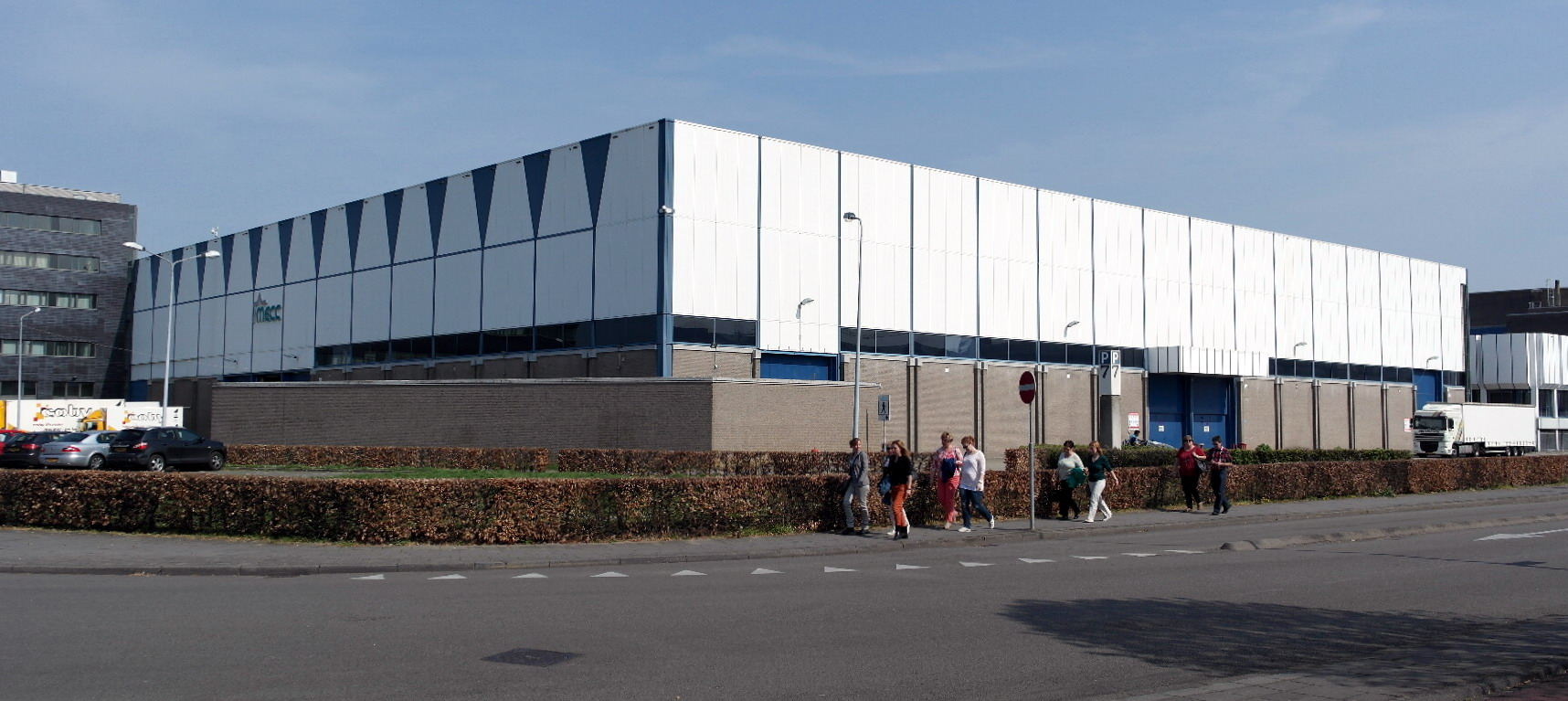 Maastricht, the Netherlands. View of MECC exhibition hall in the southeastern Randwyck business district.